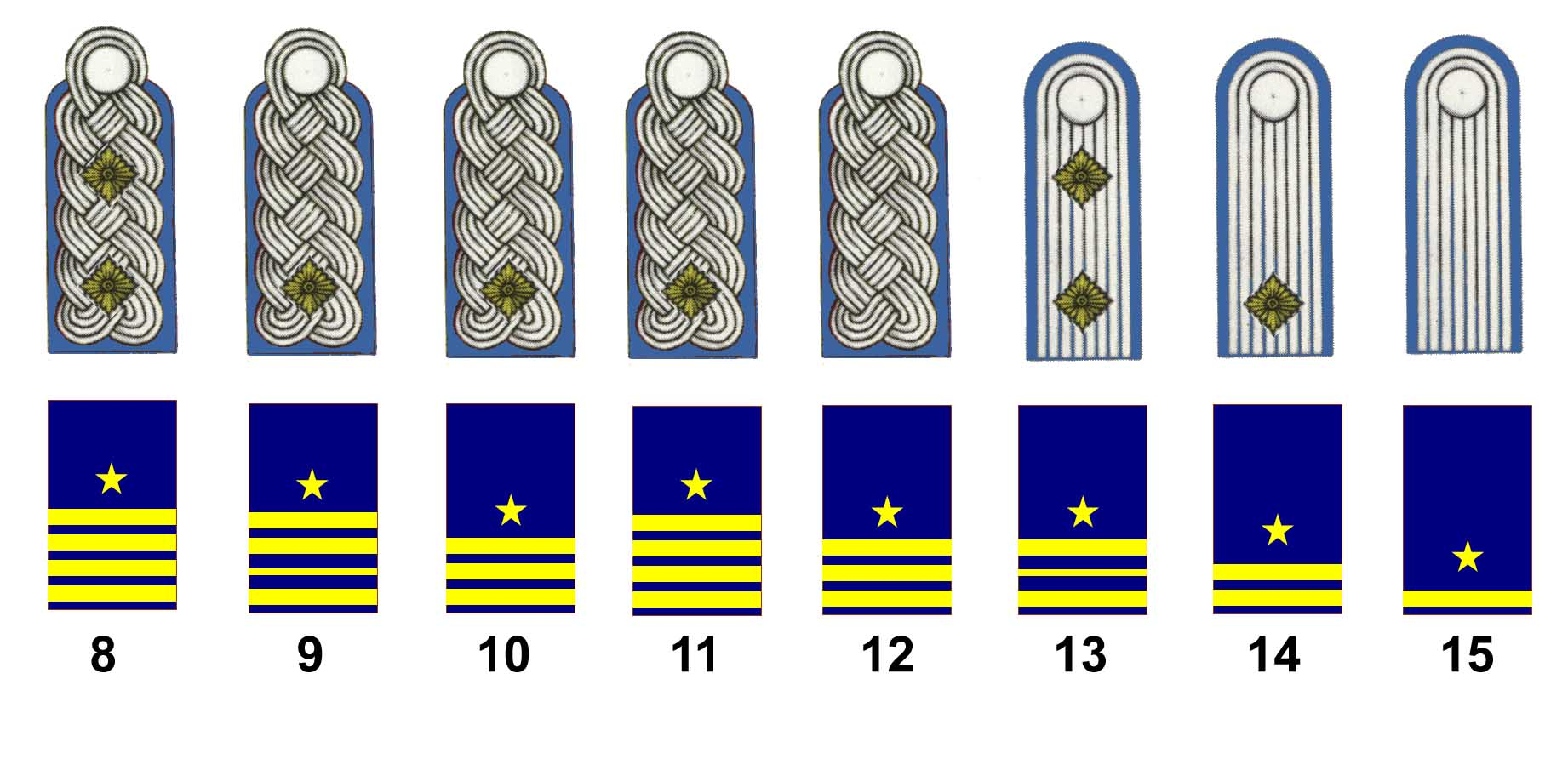 Military rank insignia of the German Kriegsmarine until 1945, here officer ranks (upper row shoulder boards, lower row sleeve insignia): 8 = Captain (naval) (OF-5) 9 = Commander (OF-4) new from autumn 1944 10 = in 1944 11 =before 1944 12 = Lieutenant commander (OF-3) 13 = Kapitänleutnant (OF-2) 14 = Oberleutnant zur See (OF-1a) 15 = Leutnant zur See (OF-1b)